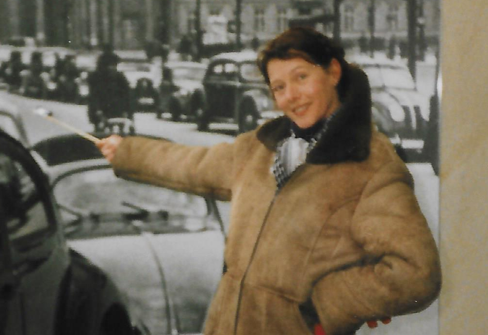 Jacqueline van de Geer in Berlin, 1995